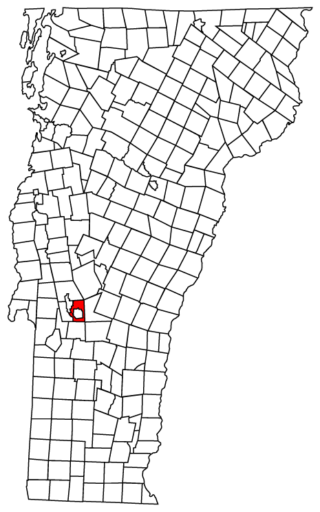 Description: Map of Vermont towns with Rutland highlighted Source: Map created by Jared C. Benedict on 26 March 2004. Copyright: © Jared C. Benedict.